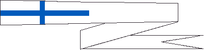 Ukrainian Navy Pennant